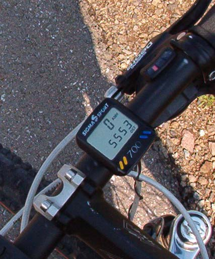 Sigma Sport 700 Cyclocomputer